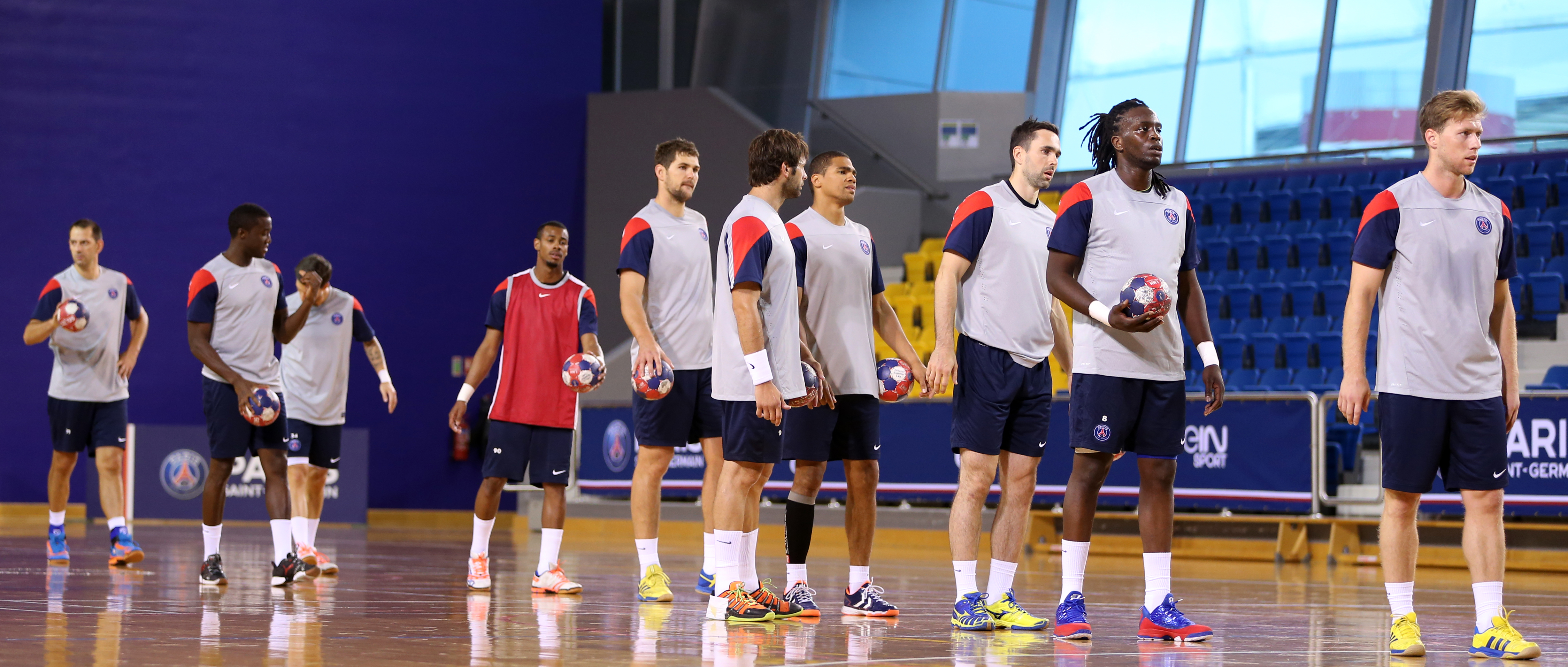 Members of France's PSG Handball team train at the ASPIRE Academy.